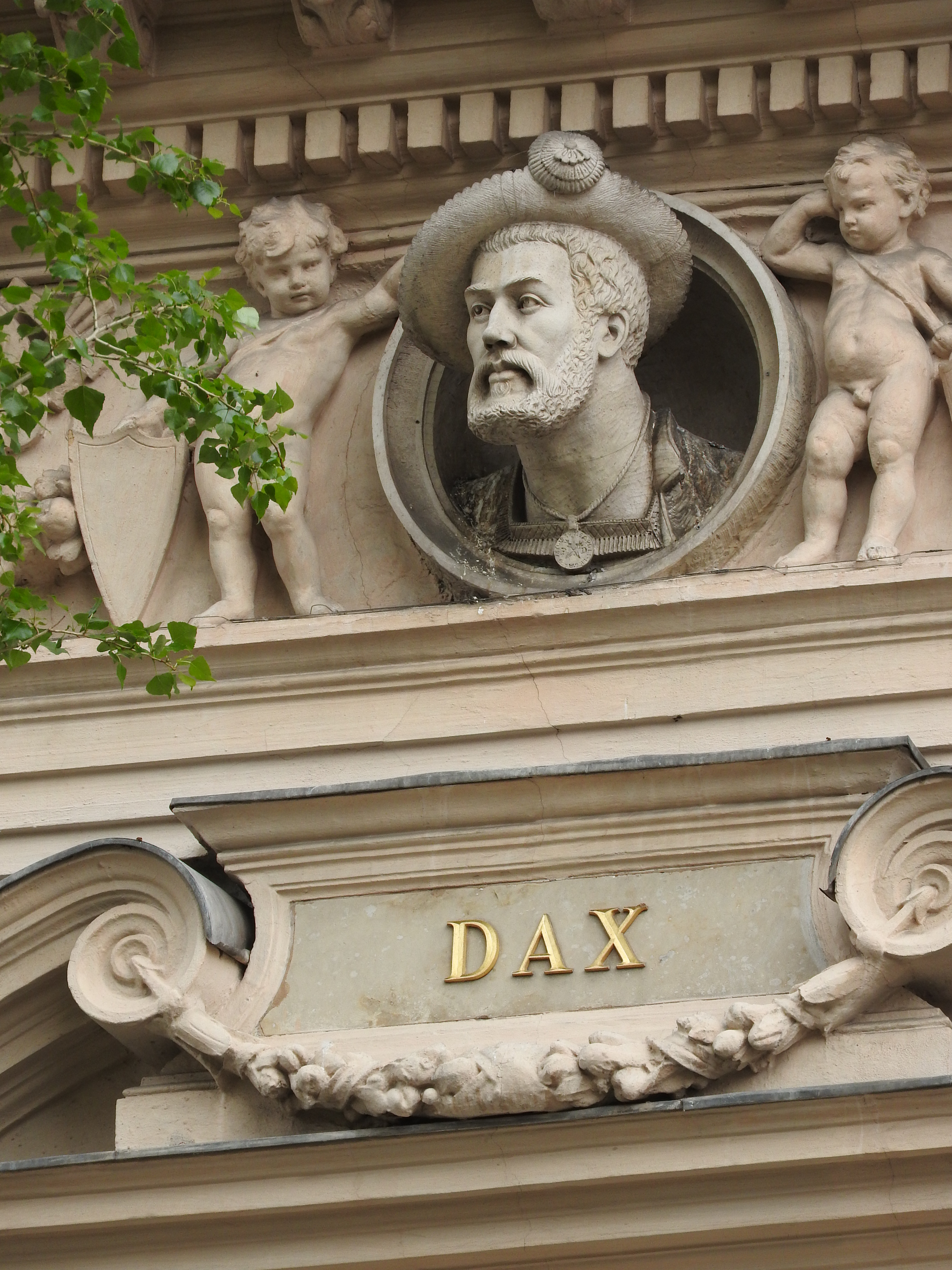 Detail of the front of Ferdinandeum in Innsbruck, Austria